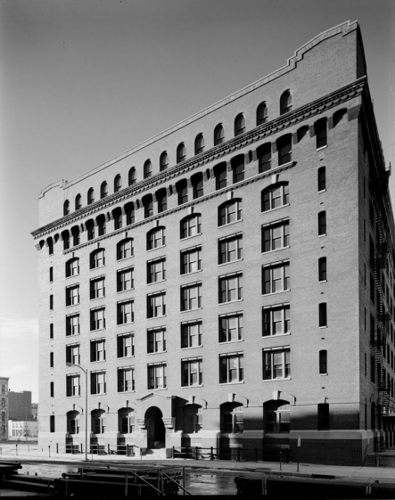 The Nash building, 901-911 Douglas St. and 902-912 Farnam St., Omaha, Nebraska. View looking northwest of the south half of the building.